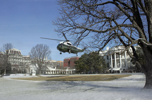 Marine One, with George and Laura Bush onboard, departs the White House South Lawn en route Andrews Air Force Base. In the background, on the right, the Executive Residence of the White House. On the left is the Colonnade and the West Wing with Oval Office windows visible. Behind that isthe Old Executive Office Building.